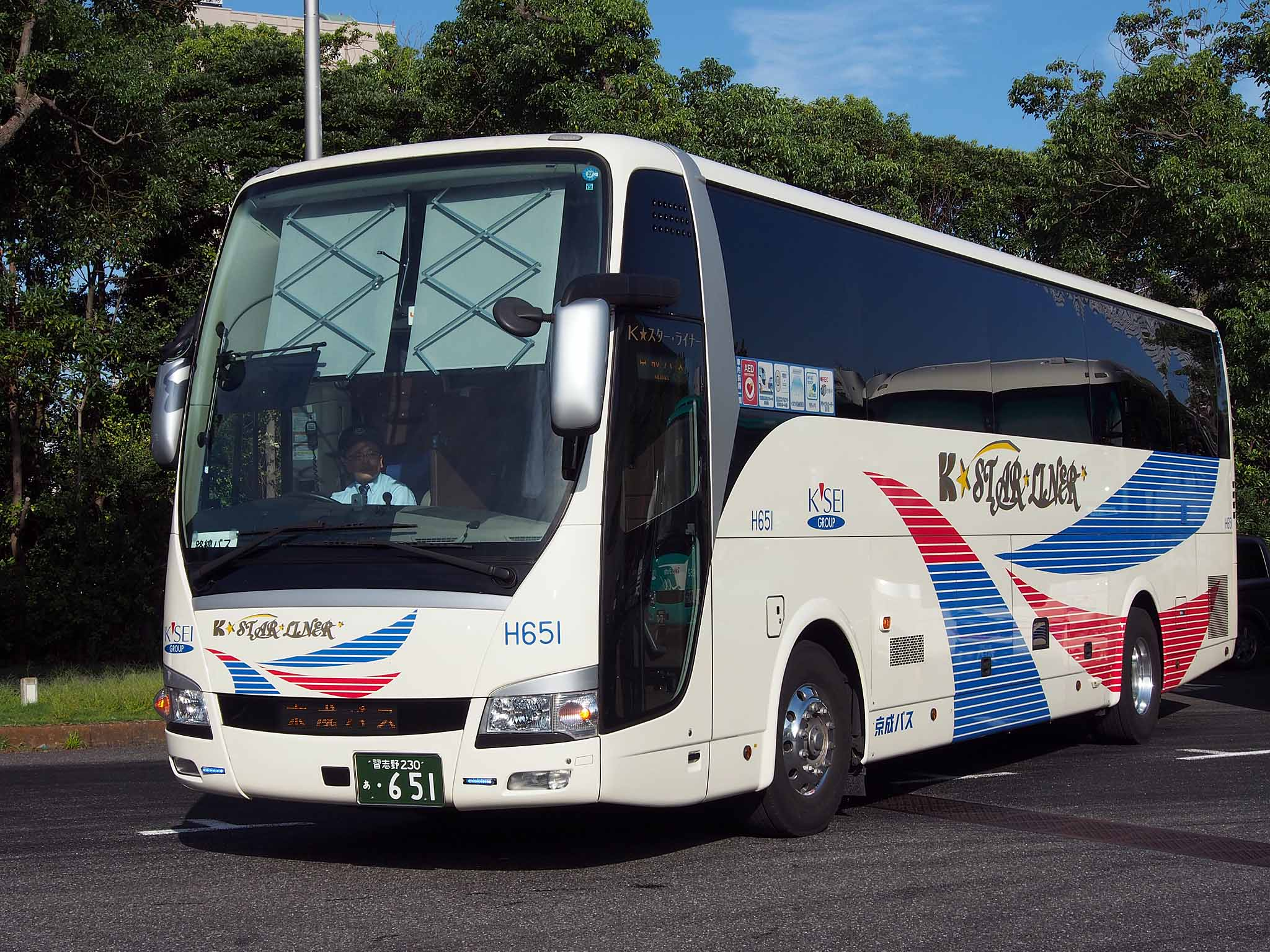 Fleet of Keisei Bus, for over night express named "K-Star Liner". Model: Mitsubishi Fuso Aero Queen QTG-MS96VP License plate: CBN230 A-651 Place: Makuhari Messe, Chiba Japan Displayed at Keisei Bus Thanks Festival 2015